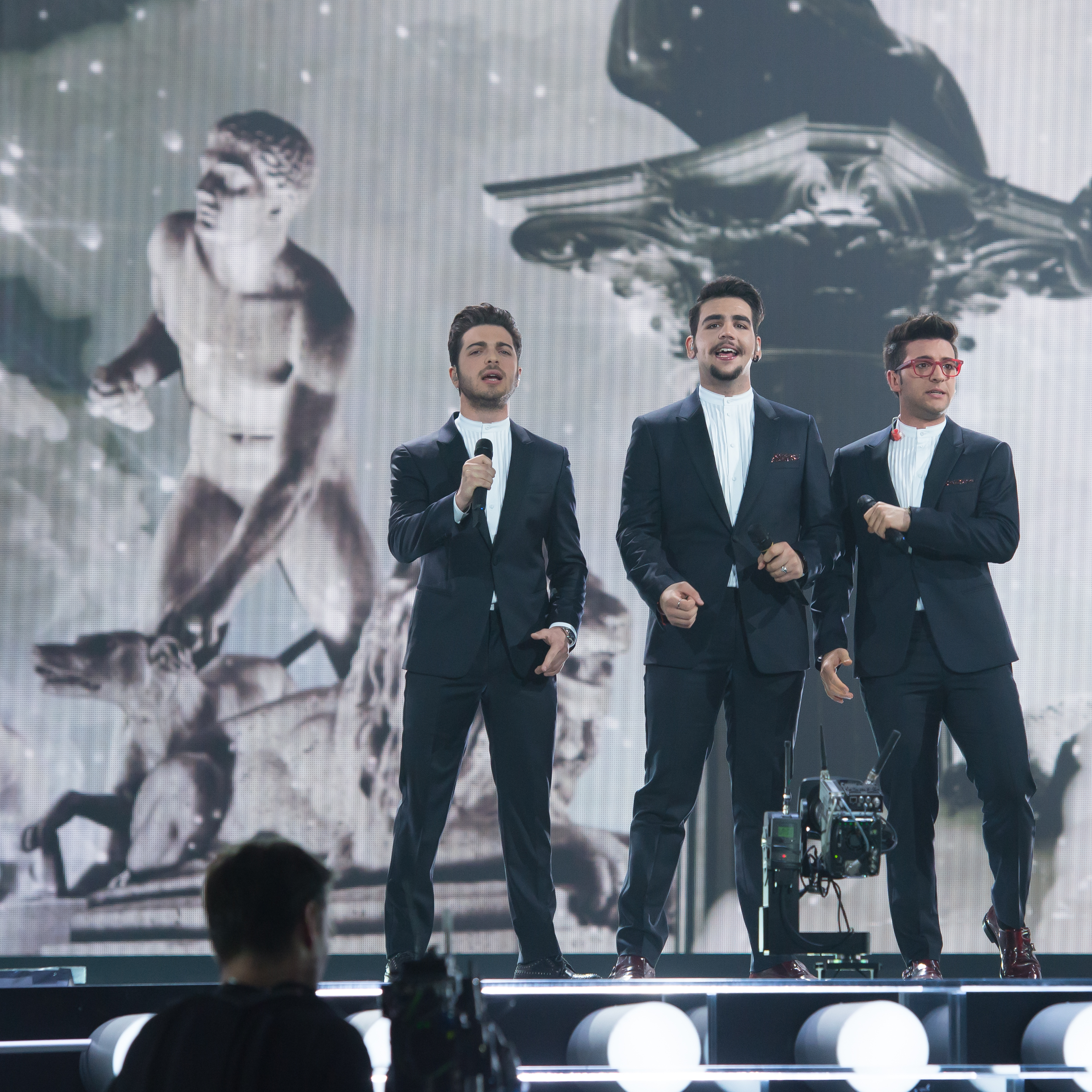 Eurovision Song Contest Vienna 2015: Il Volo